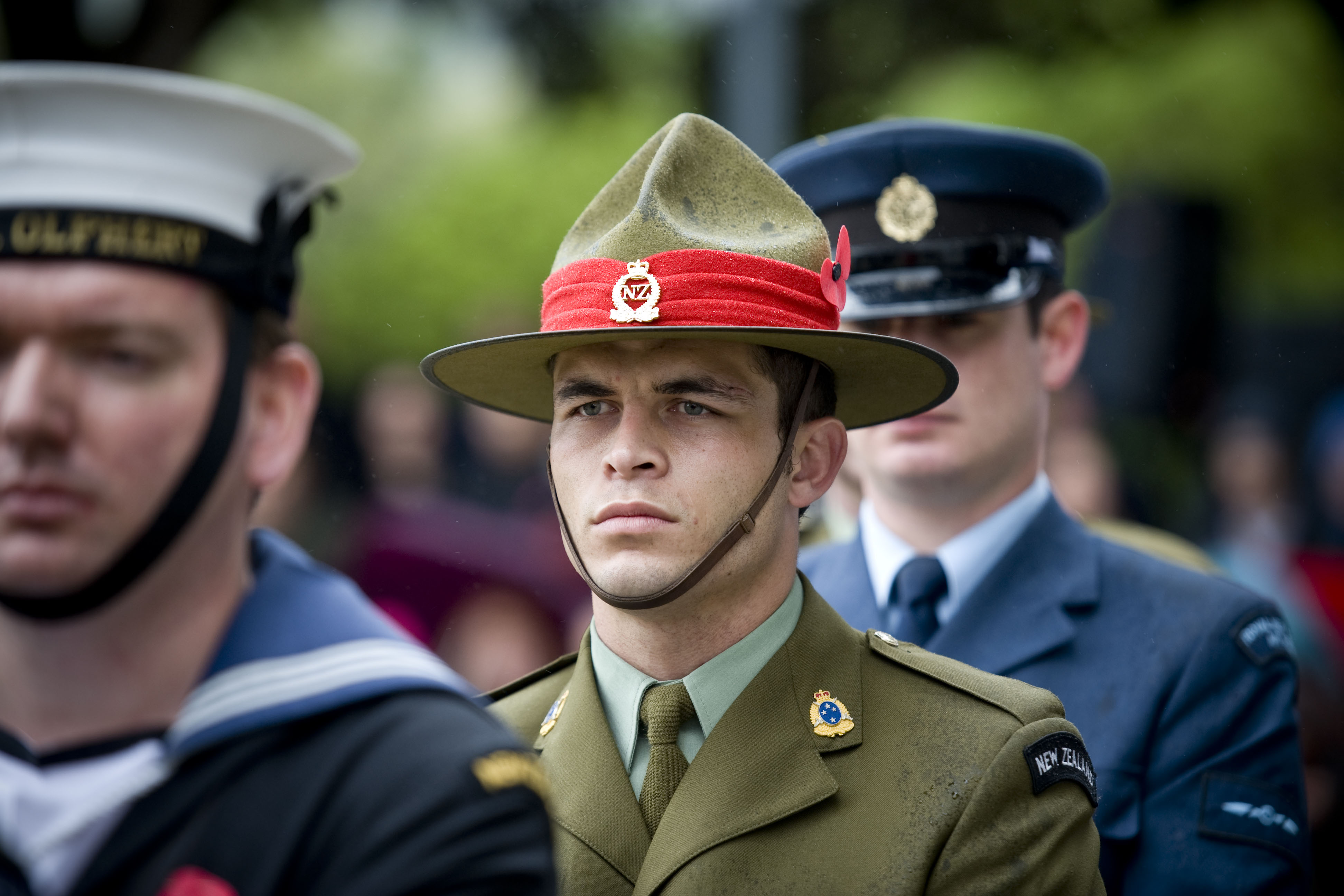 ANZAC Day service at the National War Memorial Wellington. A Tri-Service vigil watches over the Tomb of the Unknown Warrior 20110425_WN_S1015650_0010.jpg Crown Copyright 2011, NZ Defence Force – Some Rights Reserved.